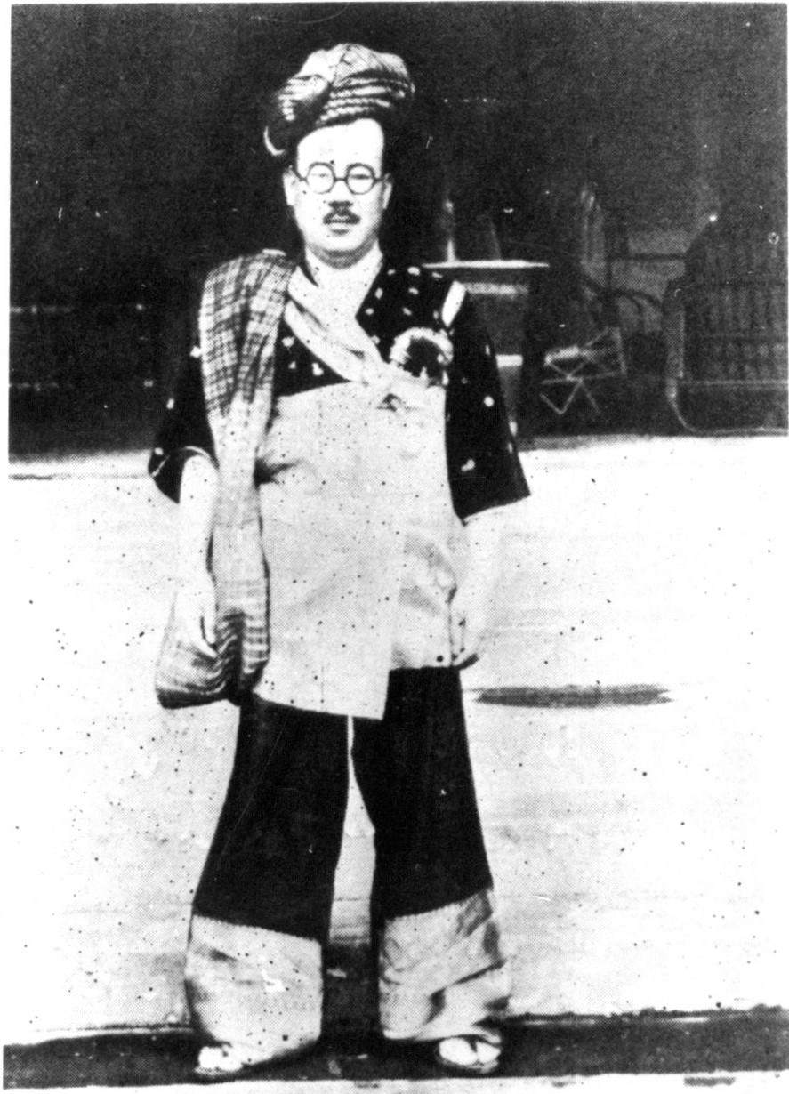 Yano Kenzo Gubernur